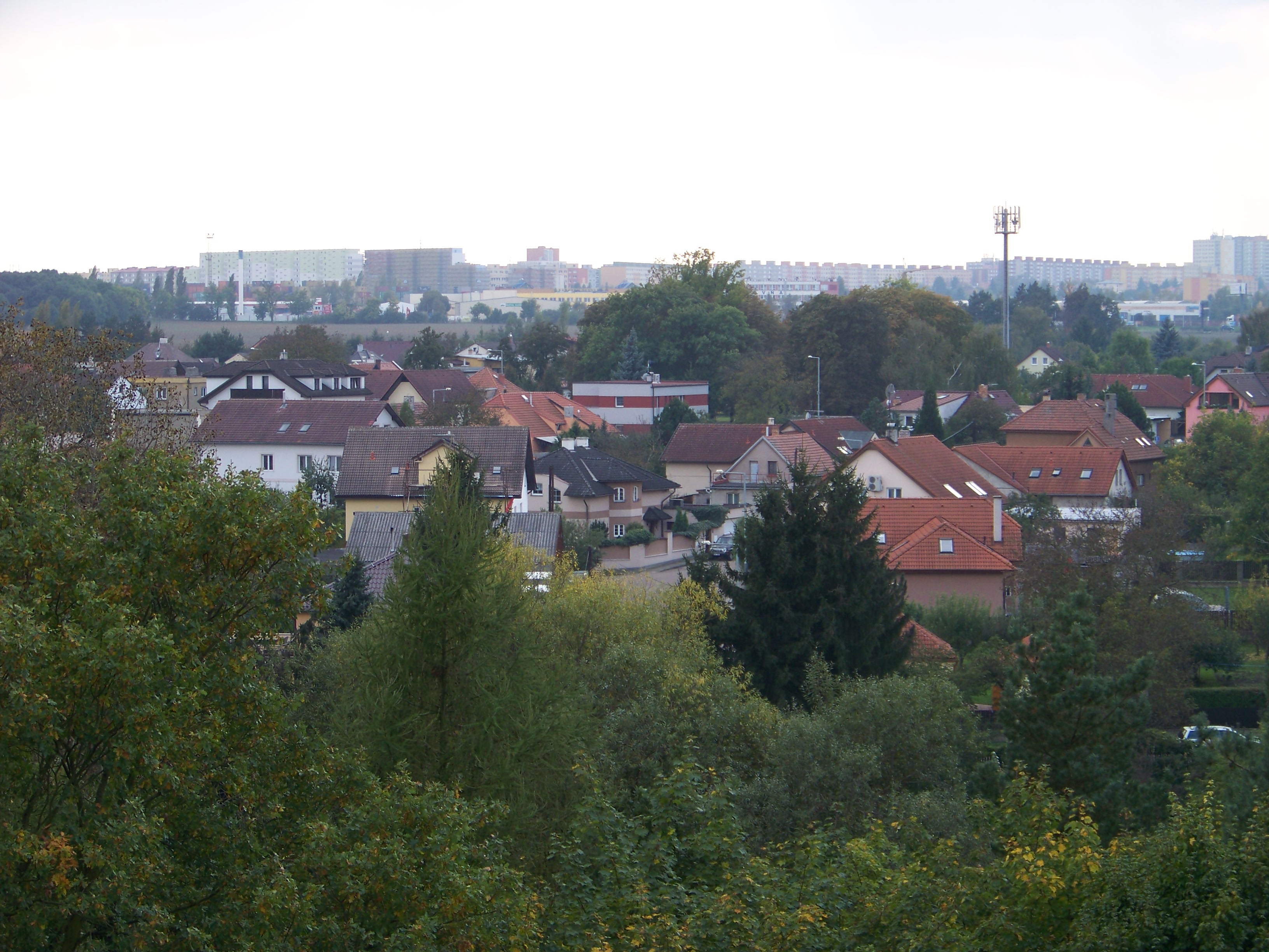 Prague-Dubeč, Czech Republic. A view of Dubeček from Rohožník hill.